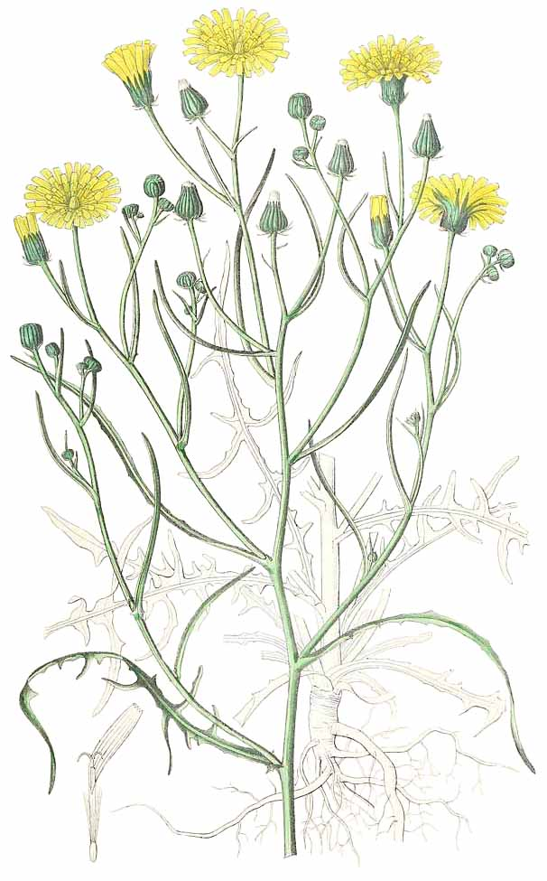 Illustration of Crepis tectorum Linné